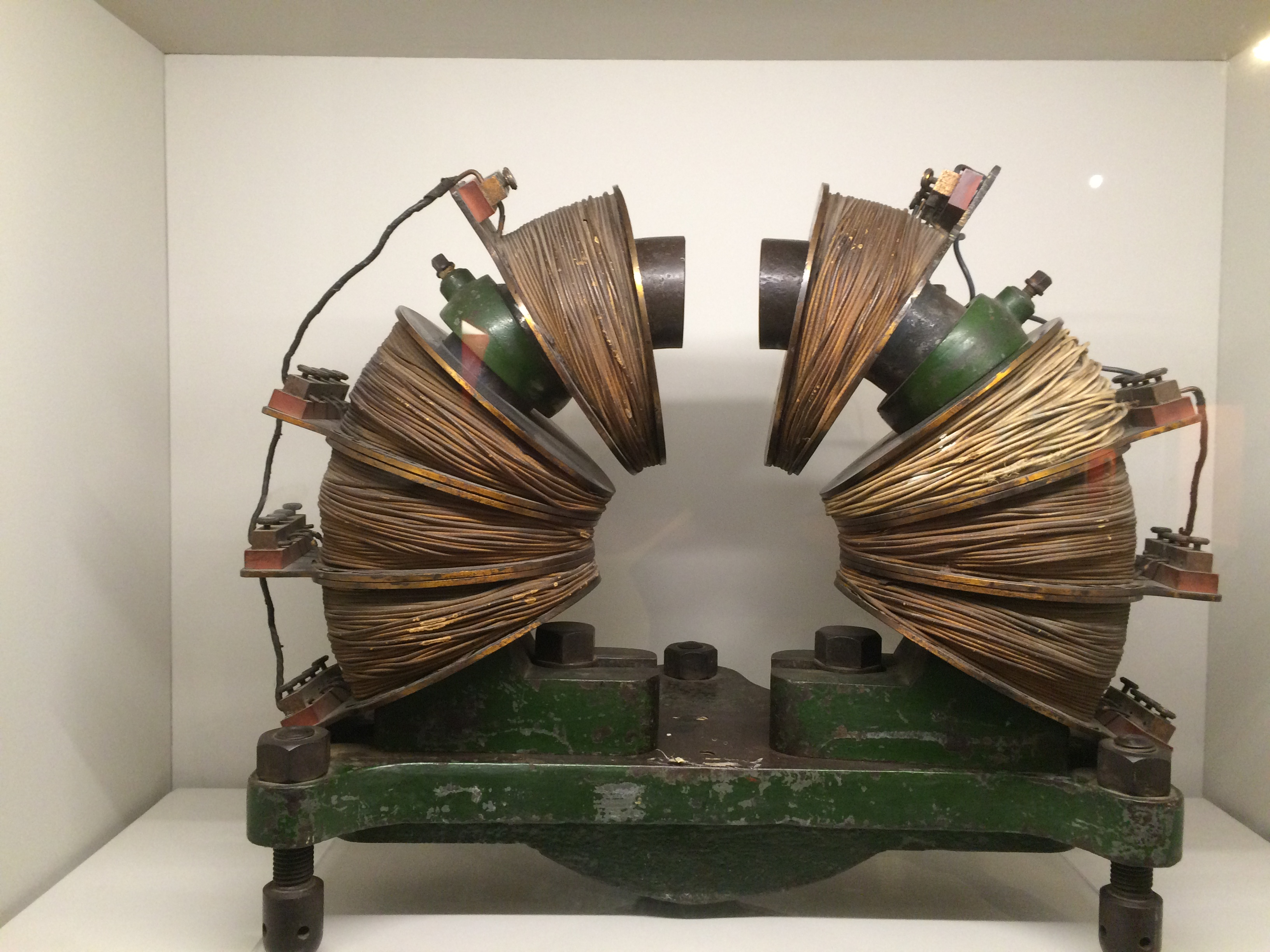 The electromagnet used by John Randall and Harry Boot in their original magnetron tube, photographed in London Science Museum. It is a standard laboratory electromagnet of the time, with the windings in several removable sections to allow adjustment of the magnetic field.